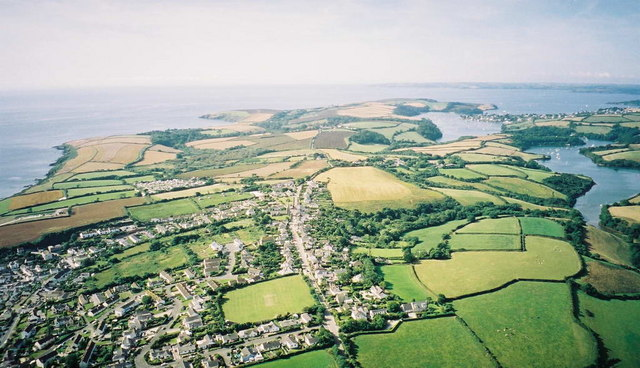 Aerial view from Paramotor of Roseland Peninsula - Portscatho in foreground, St Anthony's Head and Fal Estuary in distance